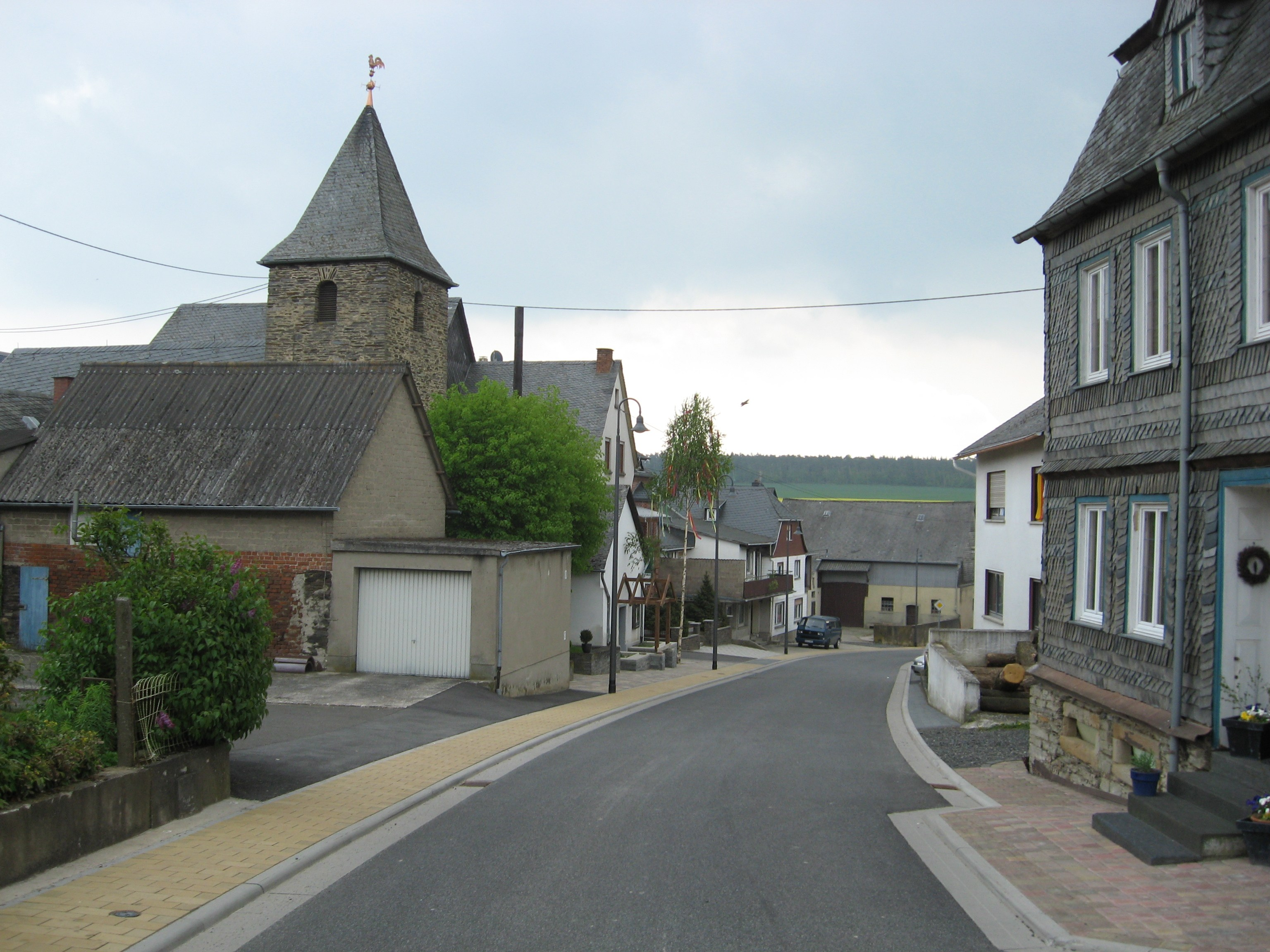 Street of the village Lindenschied in the Hunsrück landscape, Germany.